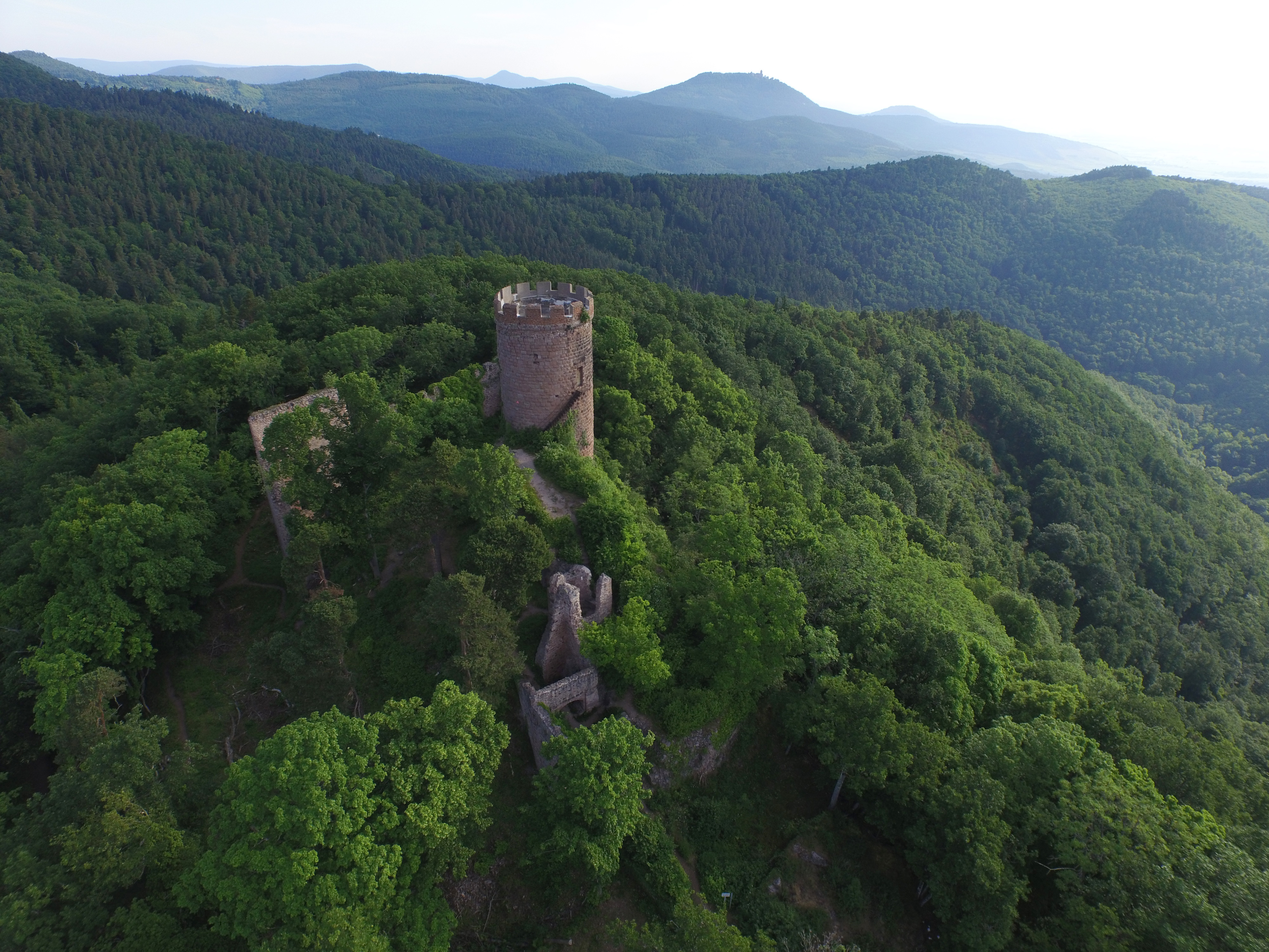 Château Haut-Ribeaupierre with the outline of Château Haut-Koenigsbourg visible on a mountaintop in the background.